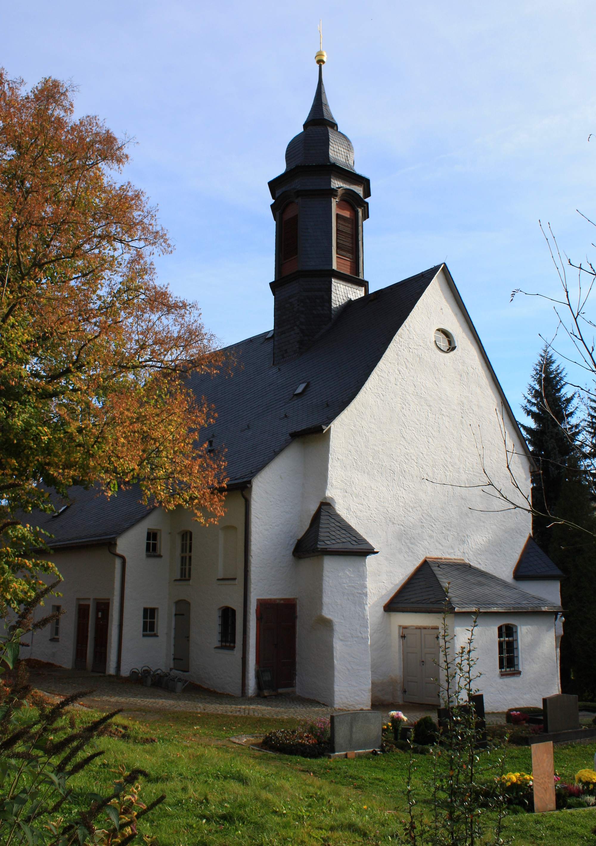 Allerheiligenkirche church Raschau: view from northwest